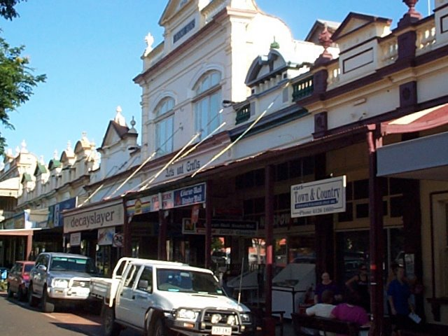 Taken by Michael Gardner 2006